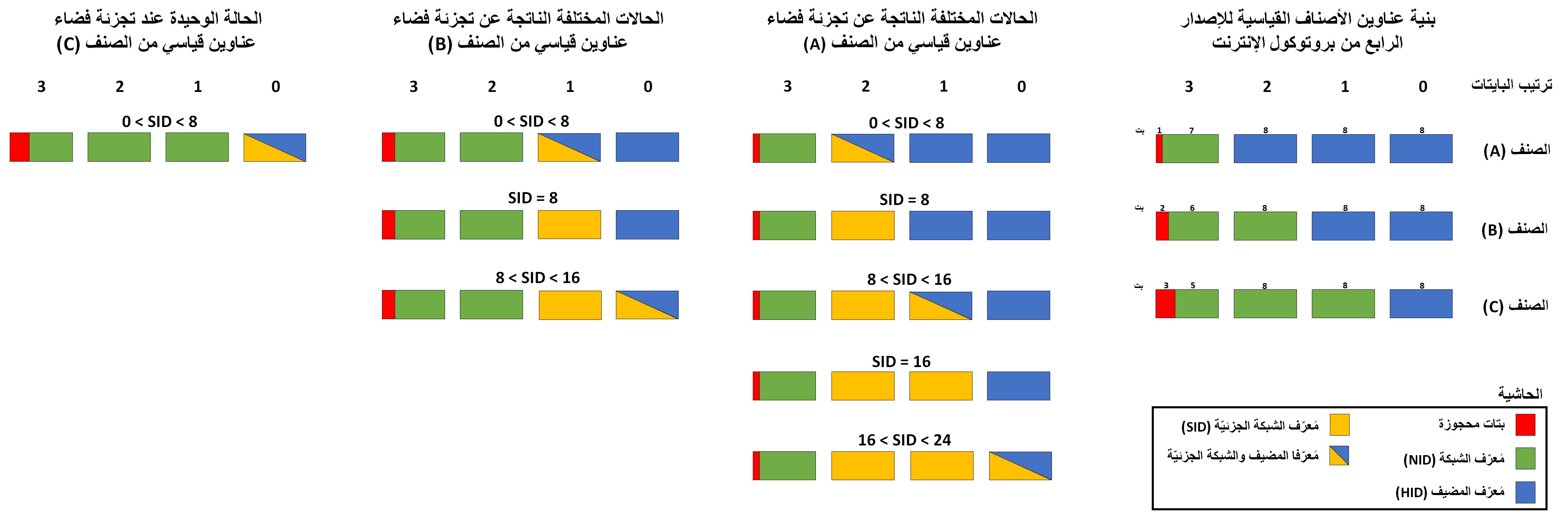 IPv4 addresses structures in all the cases when a classful address space is being subnetted.